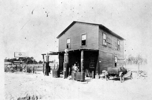 Lillie Winn Breare on porch of country store with gas pumps (1926)